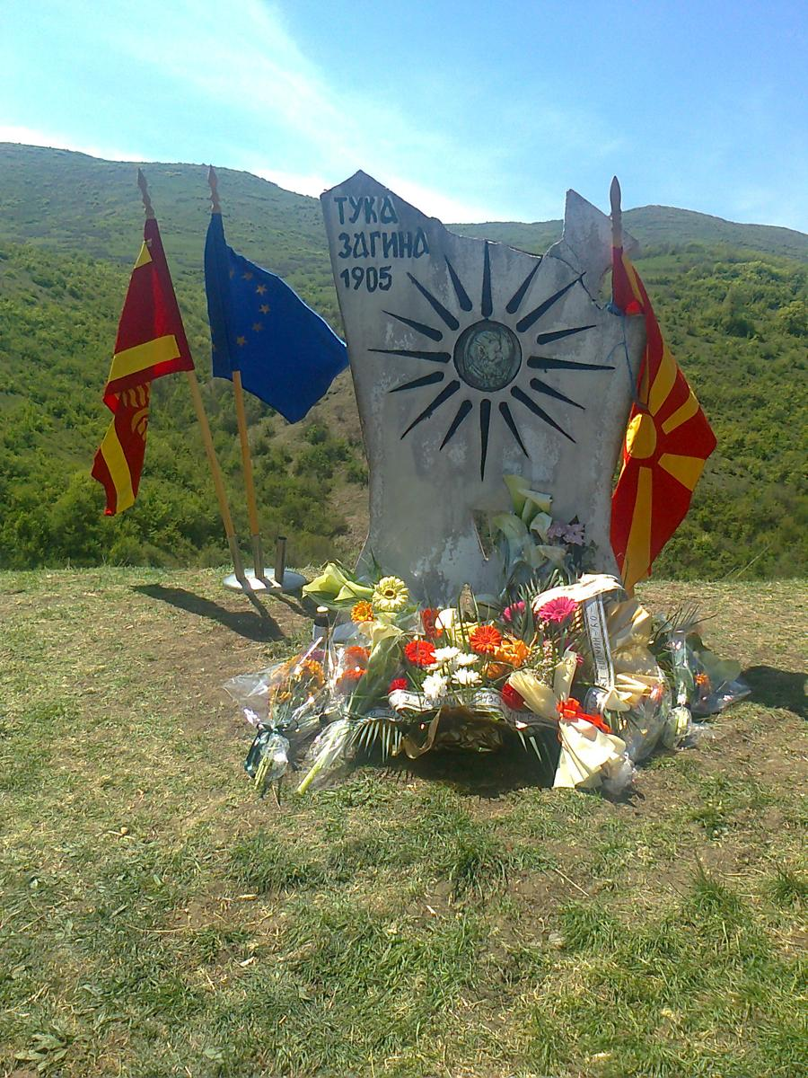 Svilanovo - monument of Nikola Karev, Republic of Macedonia